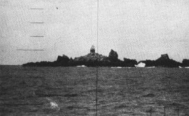 Original caption" HOME PLATE - Saint Peter and Saint Paul Rocks between Africa and S. America marked cruise's start and finish.